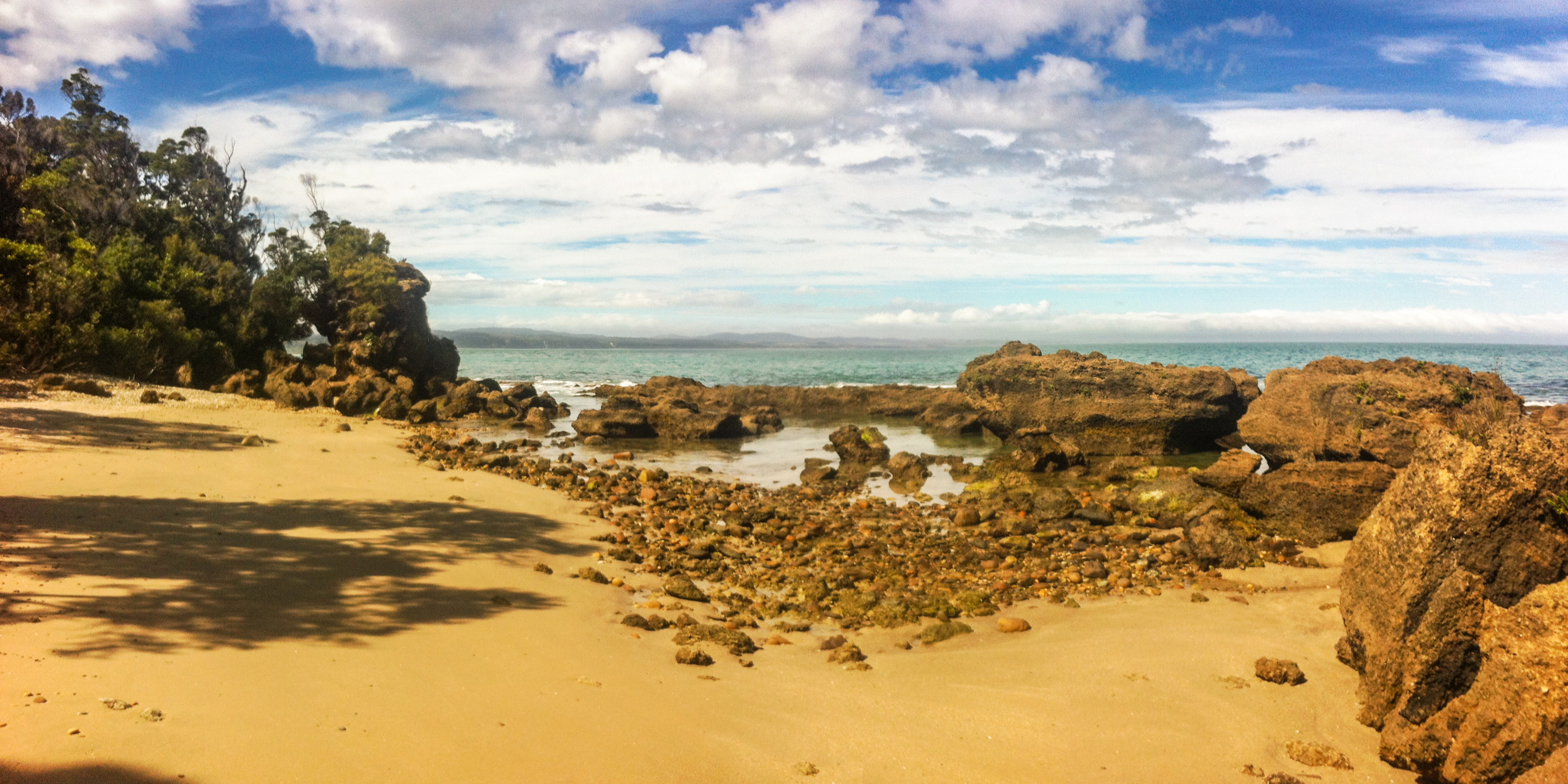 View of beach on the Hump Ridge tramping track in Southland New Zealand.